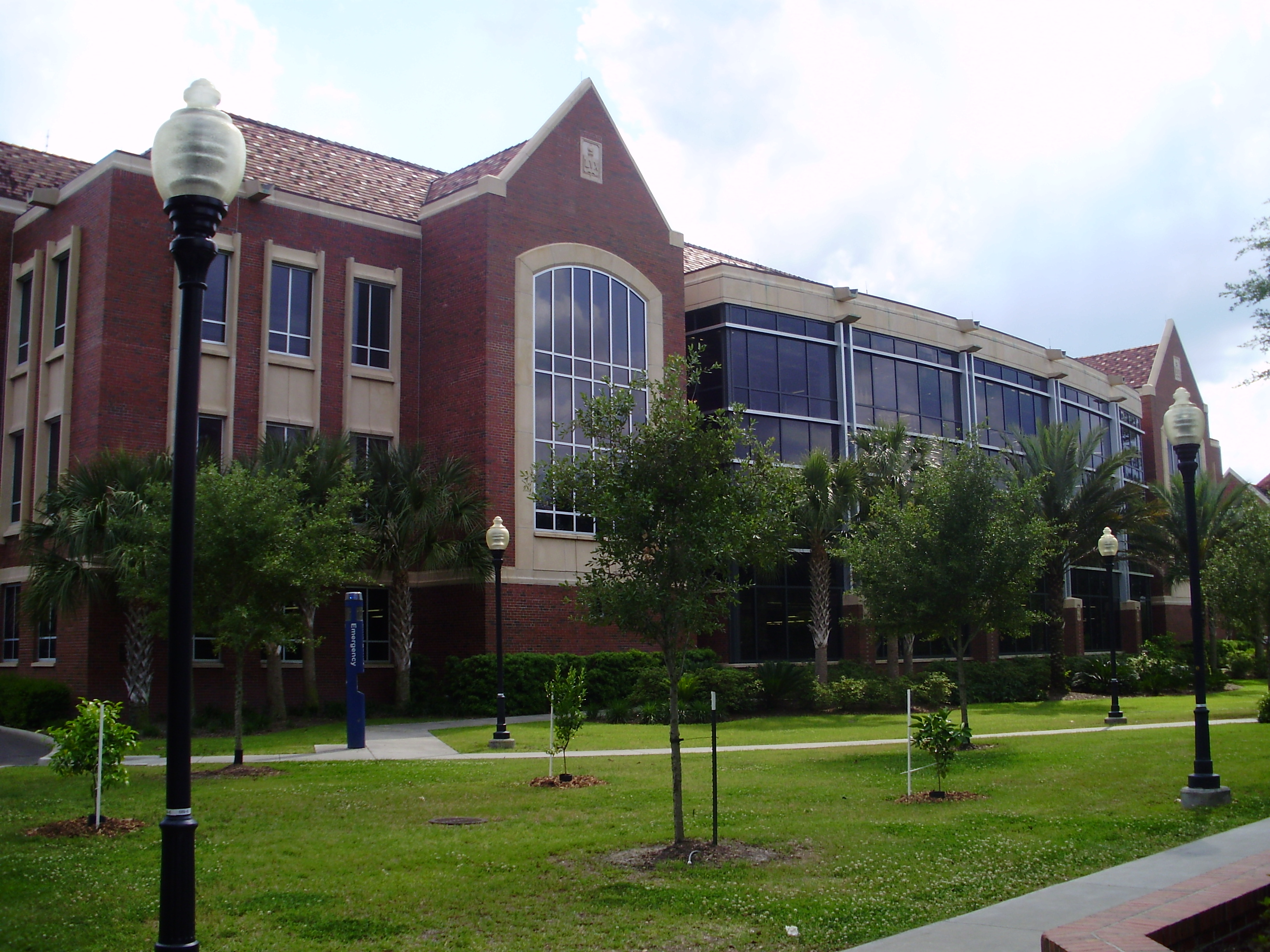 Library West (north side) at the University of Florida